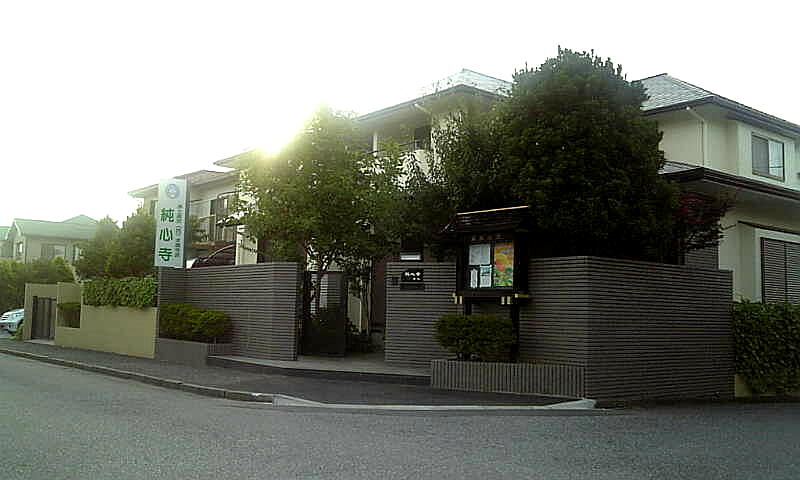 Junshinji